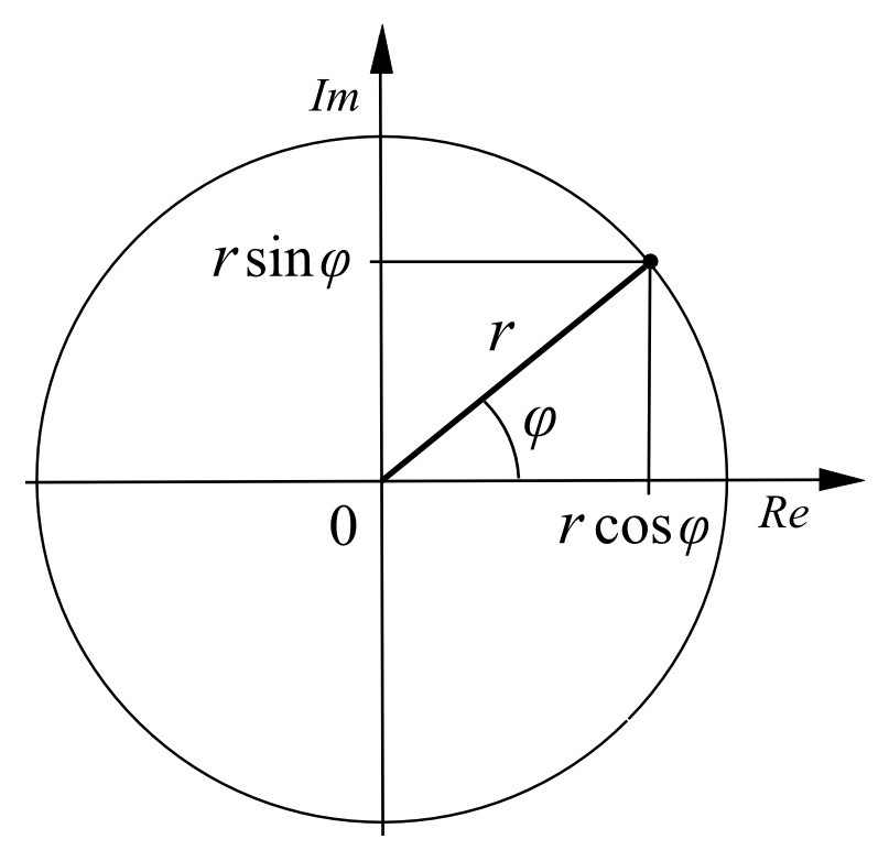 Polar Argand diagram